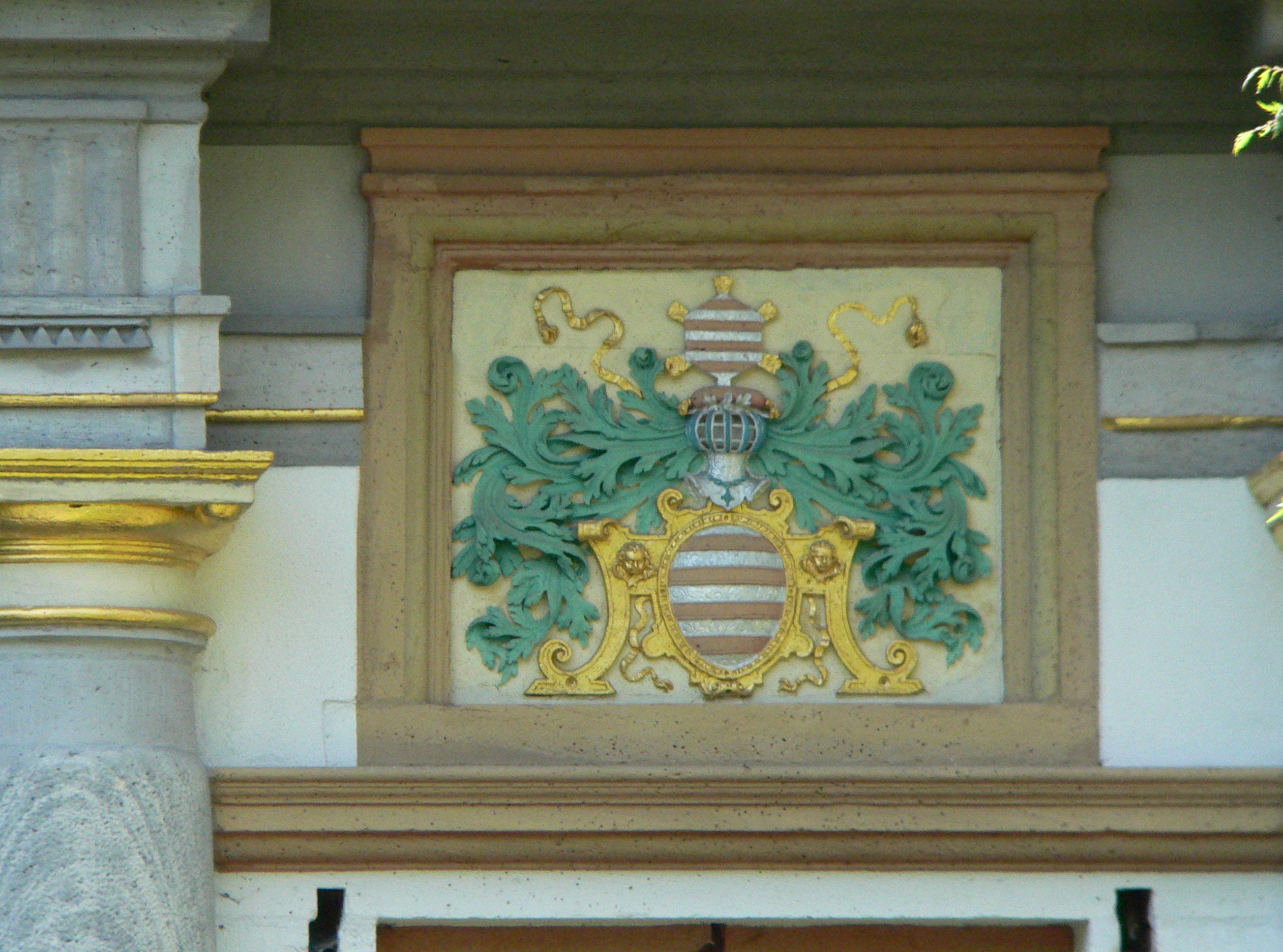 Coat of the Chapter of Mainz above the gate of Höchst Castle